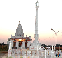 Bahi-Parshvanath Temple, Mandsaur